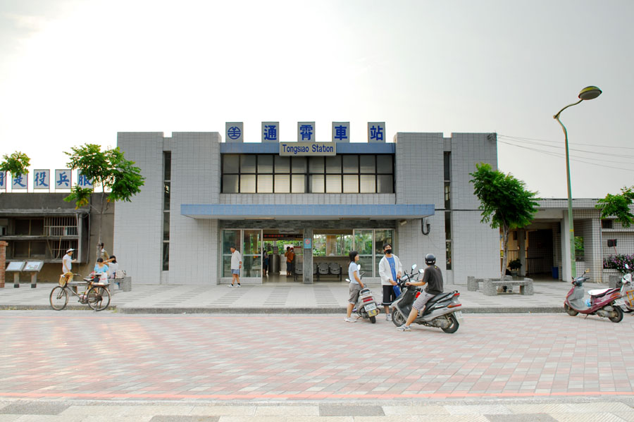 TongSiao Station is a local train station of Taiwan's Western main rail line. It's the main station of TongSiao Town, Miaoli County.